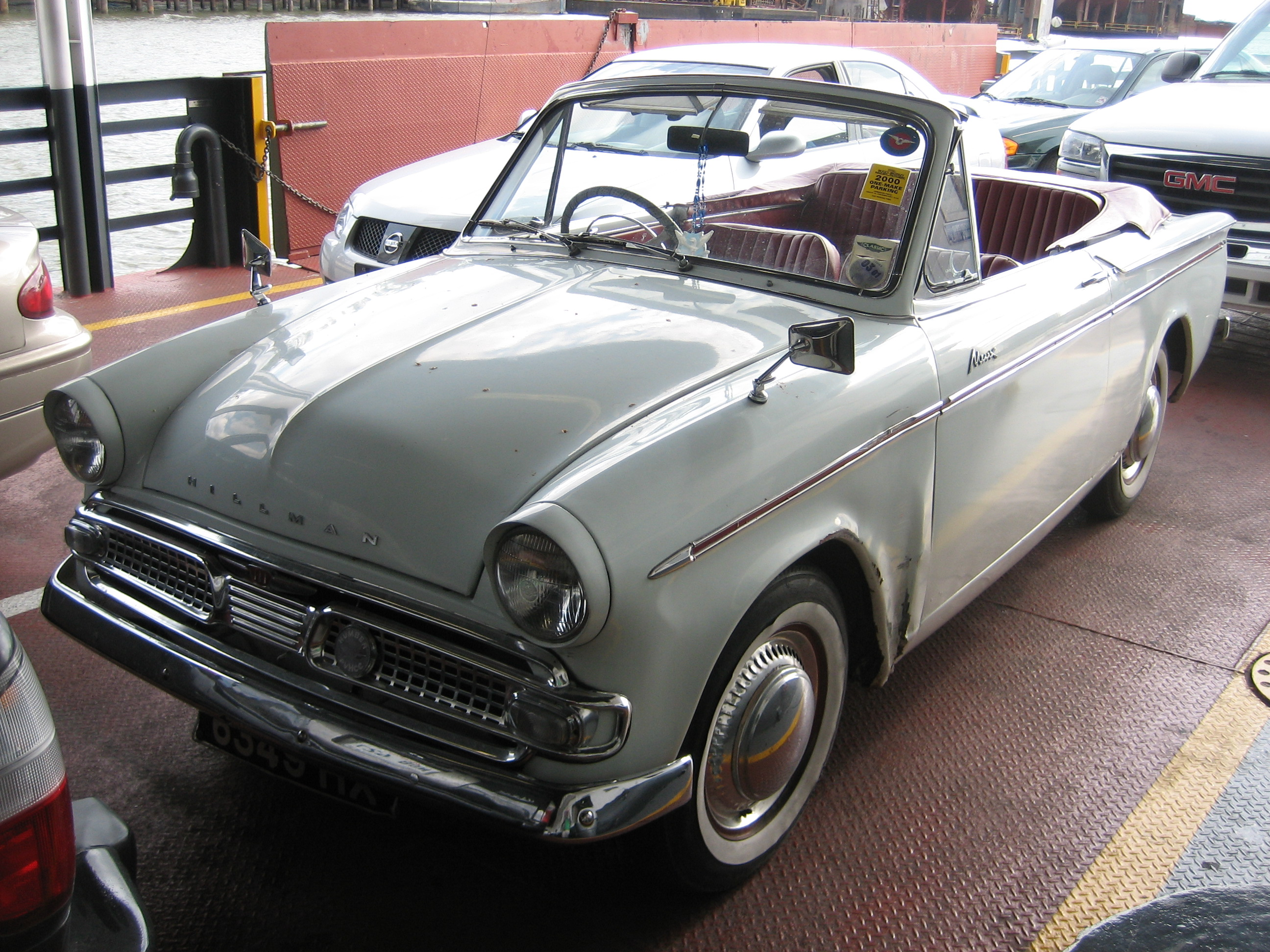 1960 Hillman "Minx" Automobile, seen on Ferry across the Mississippi River betweeen Algiers and New Orleans. Photo by Infrogmation, December 2005